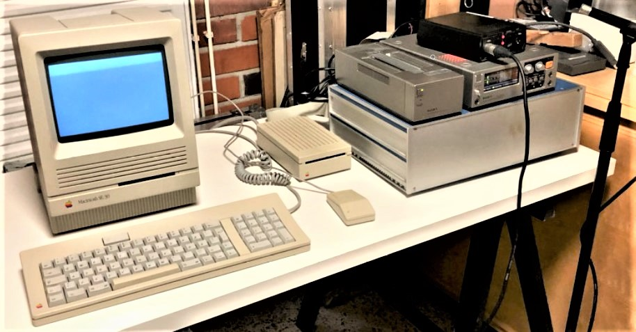 Intelligent Speech Analyser ™ (ISA) hardware and software 1986